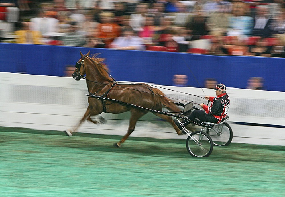 Photo By Heather Abounader